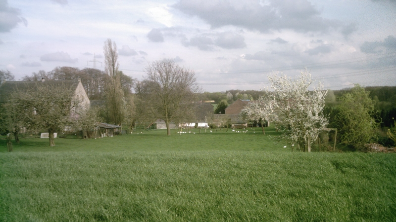 Bötzlöh, Viersen, Germany